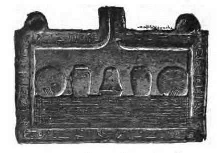 Offering table originally of the 12th dynasty, later reused and dedicated to the god Seth by the king Aaqenenre (Apophis), during the 15th dynasty. Grey/black granite, 48 x 67 cm, from Avaris. Cairo, Egyptian Museum CG 23073 (JE 39605).